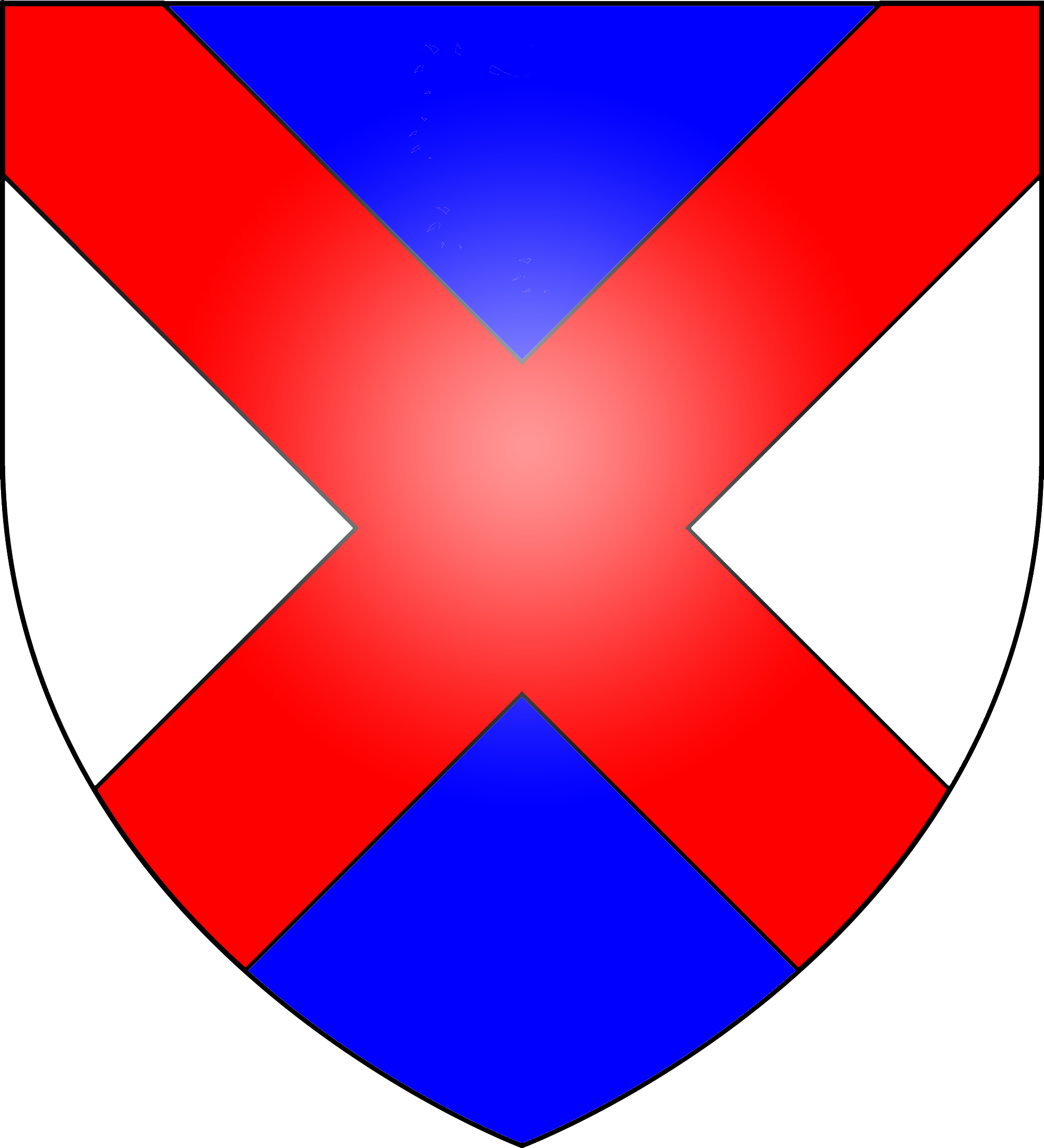 As described in Debrett's Baronetage of England: Per saltire Azure and Argent, a saltire Gules